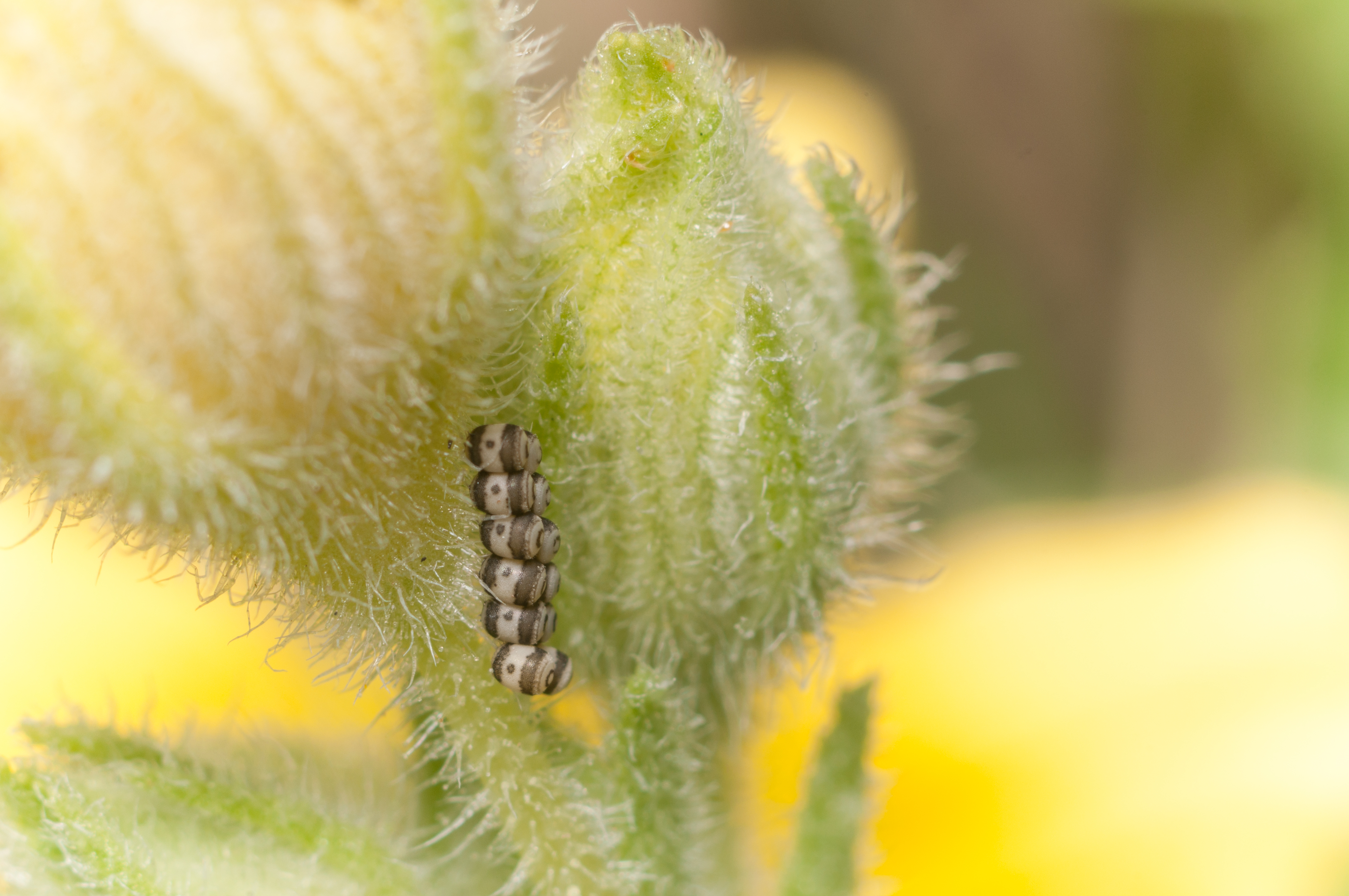 Eggs of Eurydema ventralis, Ben Arous Forest Tunisia